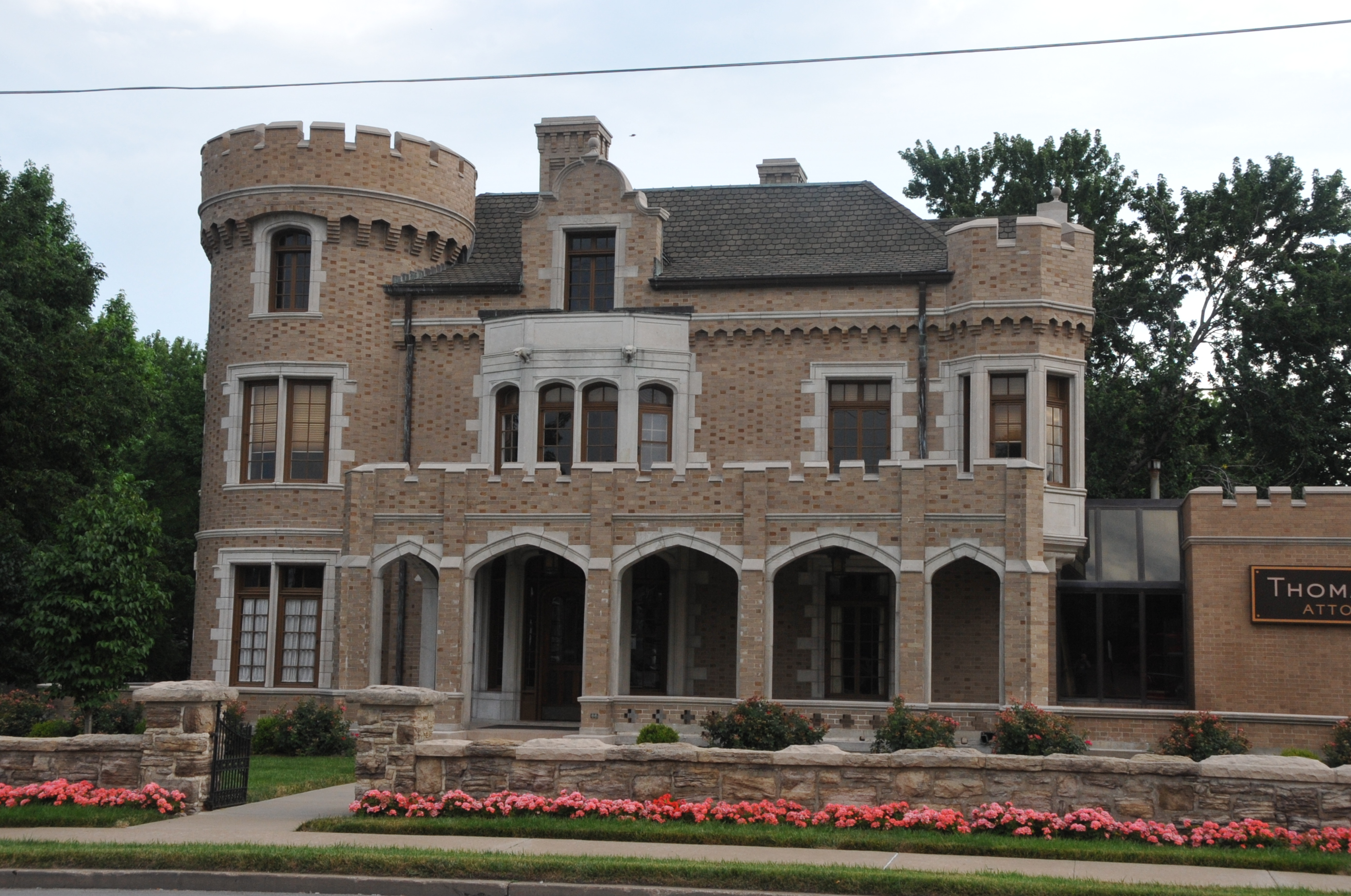 BUILT AROUND 1911 AT 25TH AND FREDERICK AVENUE, THIS CASTLE-LIKE STRUCTURE WAS ONCE THE RESIDENCE OF DR JACOB GEIGER, AND TODAY REMAINS UNIQUE AMONG ST JOSEPH RESIDENCES